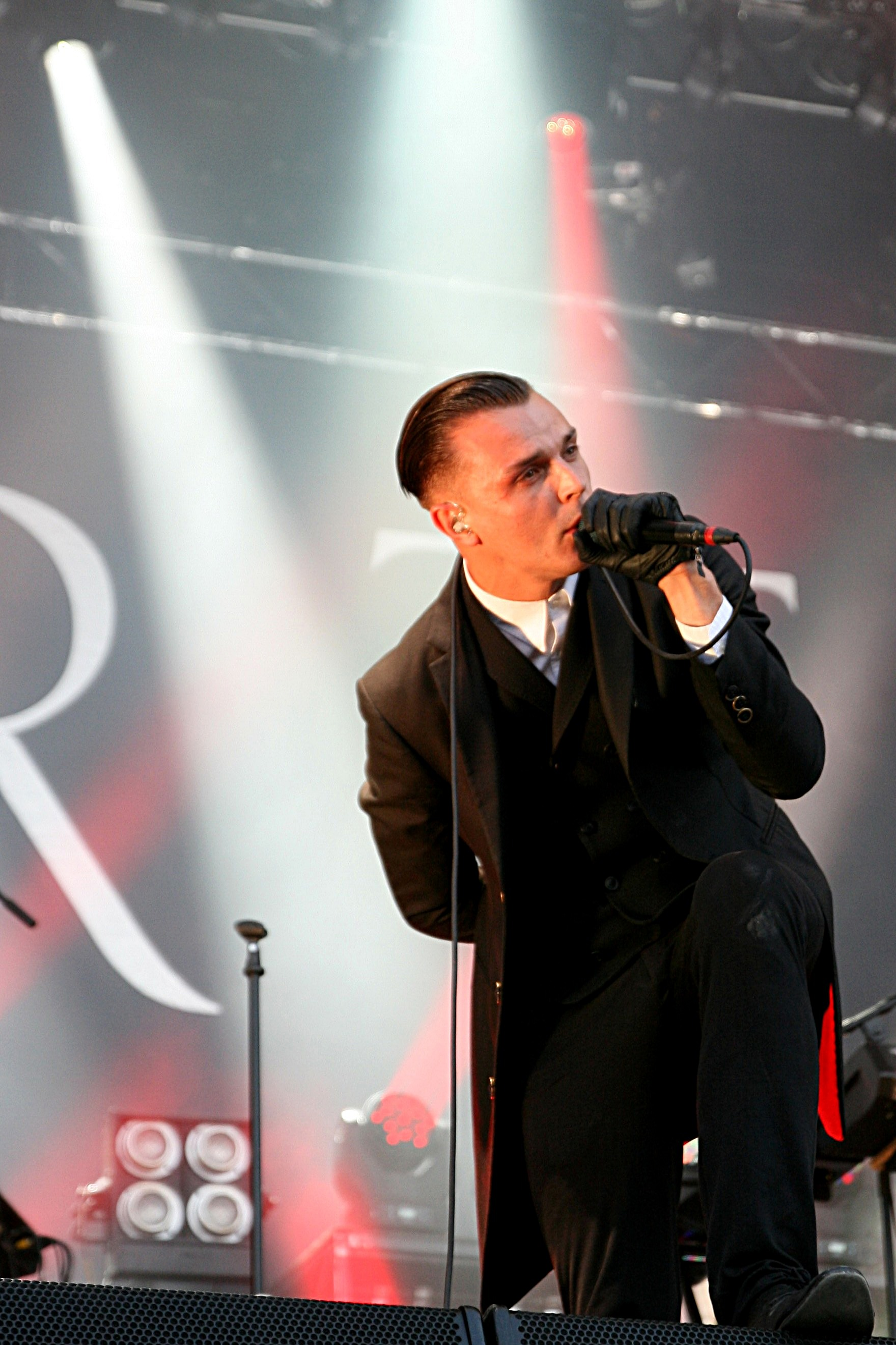 Theo Hutchcraft, singer of Hurts, stands on the Alterna Stage of Rock im Park-Festival 2013. Festivalsommer This photo was created with the support of donations to Wikimedia Deutschland in the context of the CPB project "Festival Summer".